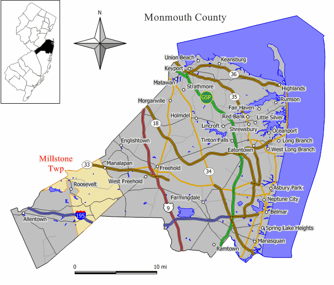 Source: Jim Irwin